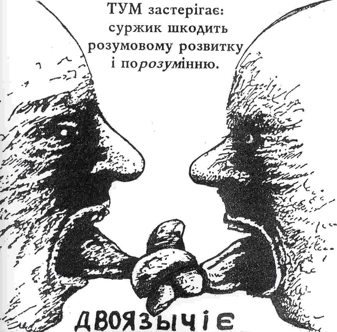 Poster image from the the Ukrainian Taras Sevchenko association, pointing out the risks with using Surzhyk.